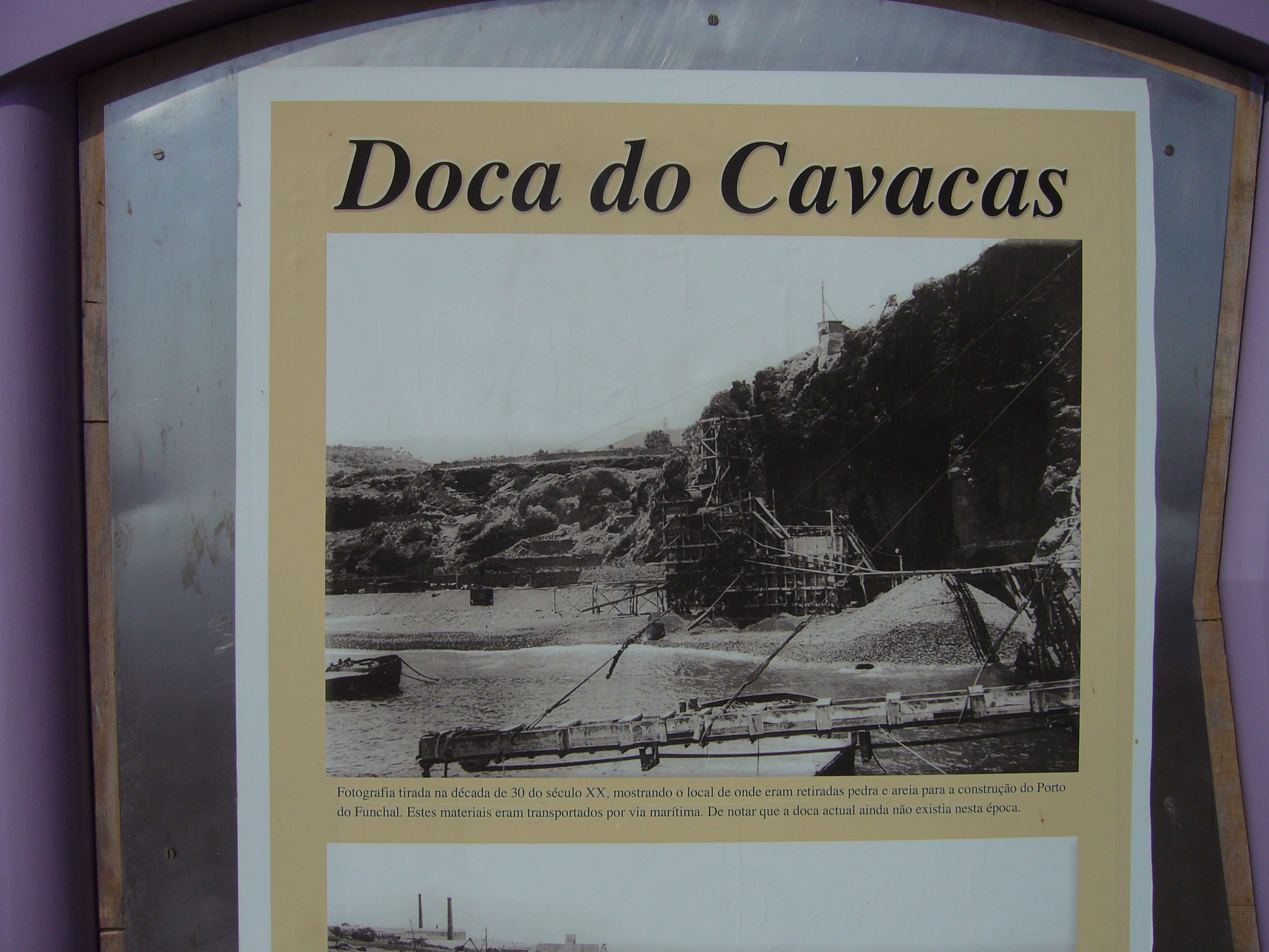 Photograph illustrating stone quarry at Doca do Cavacas - Funchal in the thirties.